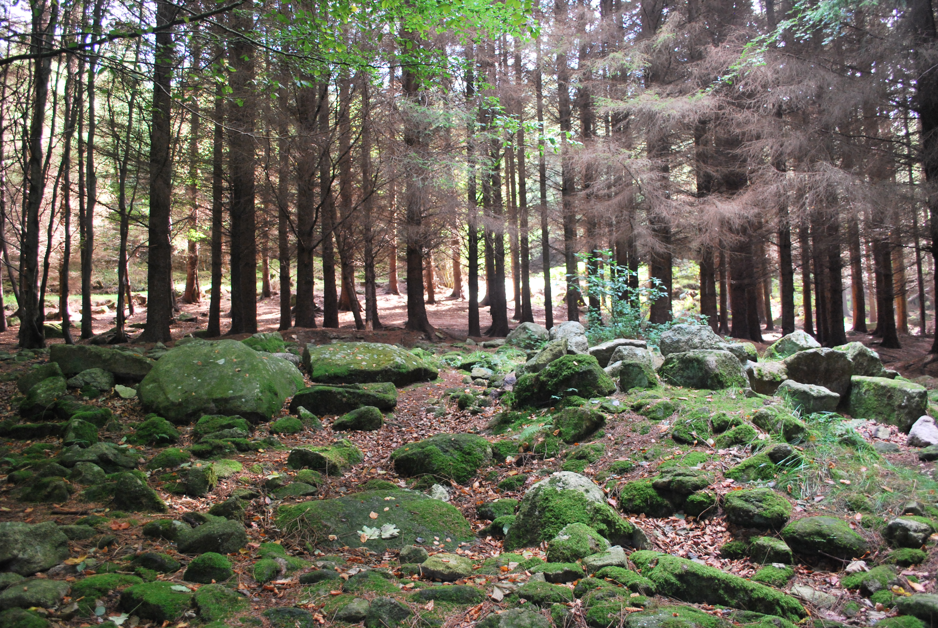 Kilmashogue Wedge Tomb